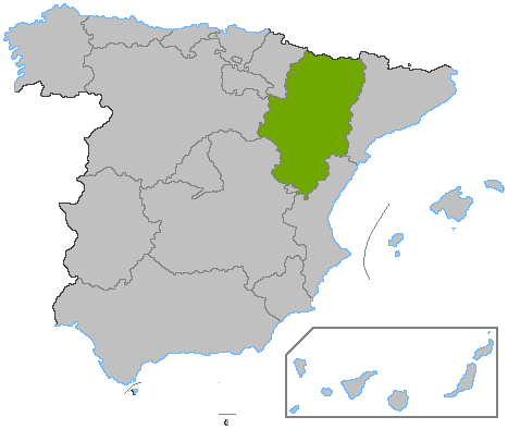 Location of Aragon, in Spain. Basado en: ProvPont.jpg Source: Designed by Satesclop. Original picture, designed by Sobreira.